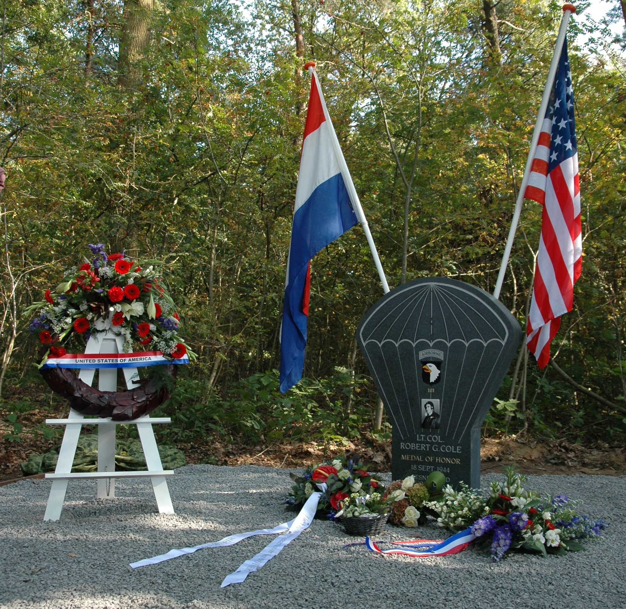 Monument for Robert Cole in Best, Netherlands